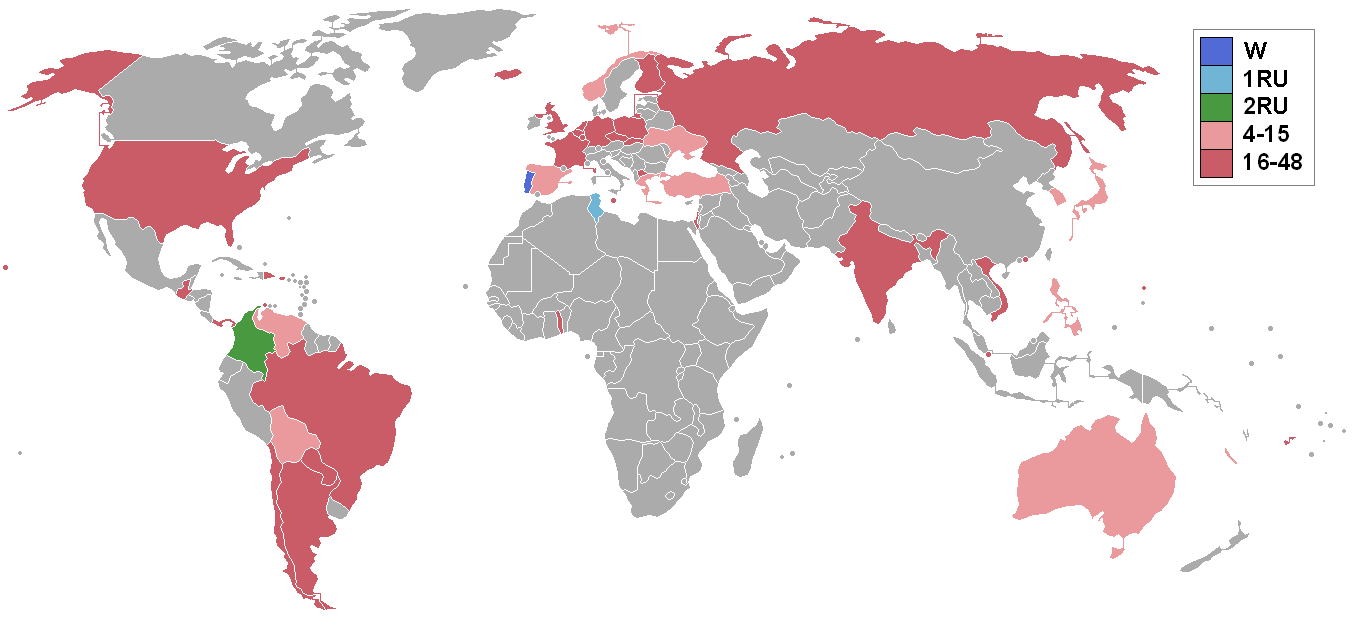 Miss International 1996 results map